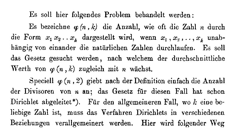 Scan of first page of PhD thesis of Adolf Piltz ('Piltz divisor problem'), 1881